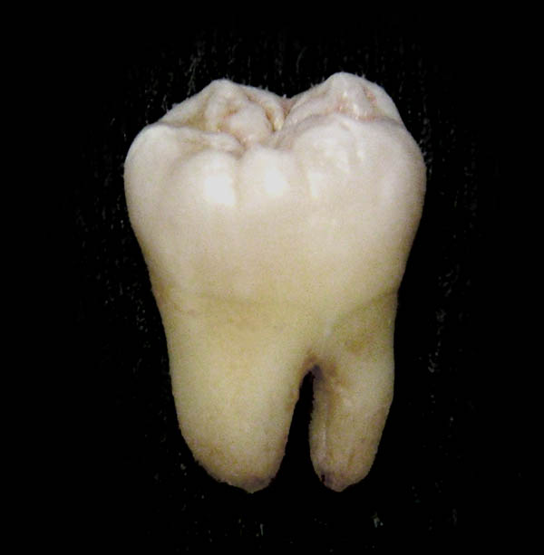 The lower wisdom tooth, just structed (extracted) from me.